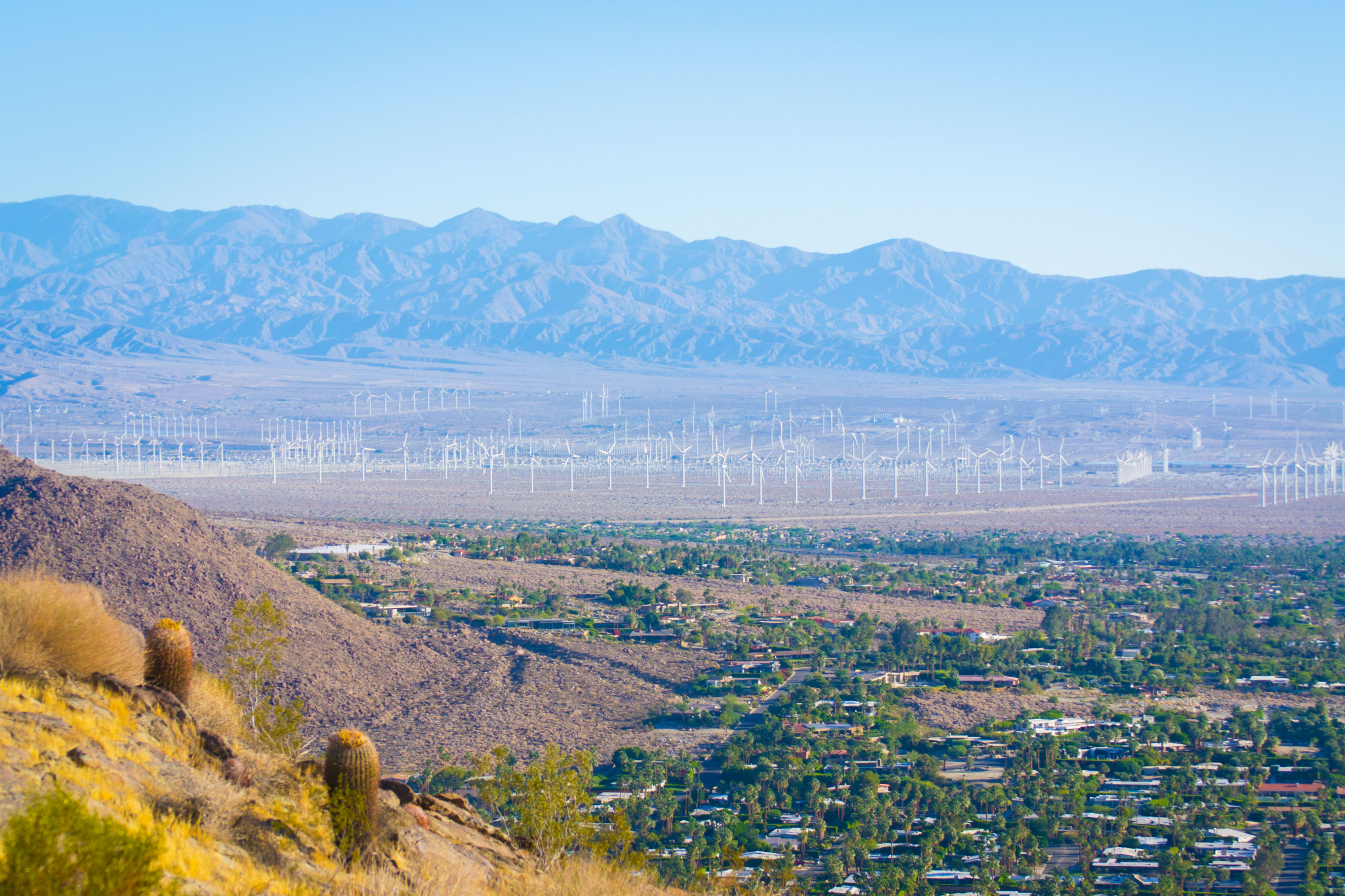 A wind farm in Palm Springs, California, north of the Museum Trail